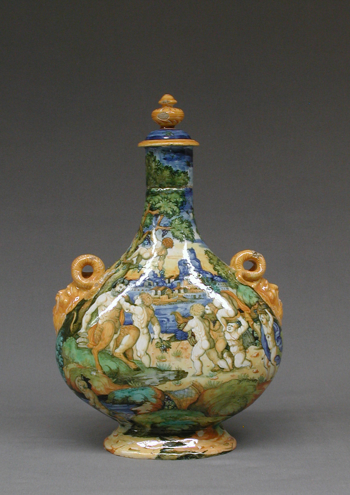 Italian, Urbino; Pilgrim bottle; Ceramics-Pottery